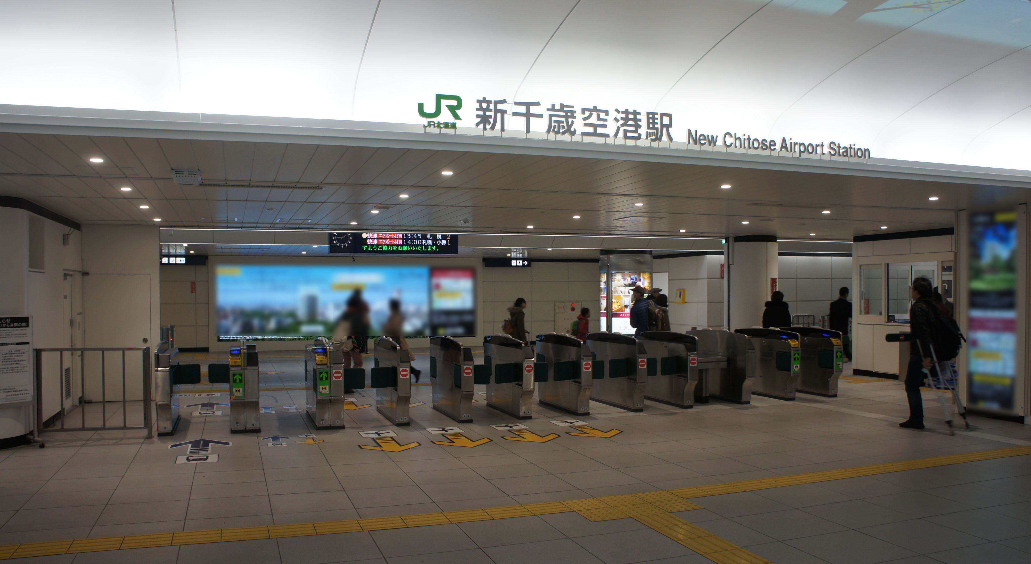 Gates at JR Chitose-Line New Chitose Airport Station Sony NEX-3